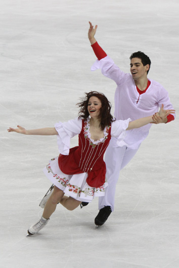 Anna Cappellini and Luca LaNotte at the the 2010 World Championships.